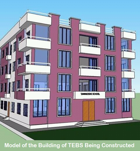 It is the model of a school created by me by reference from its blueprints